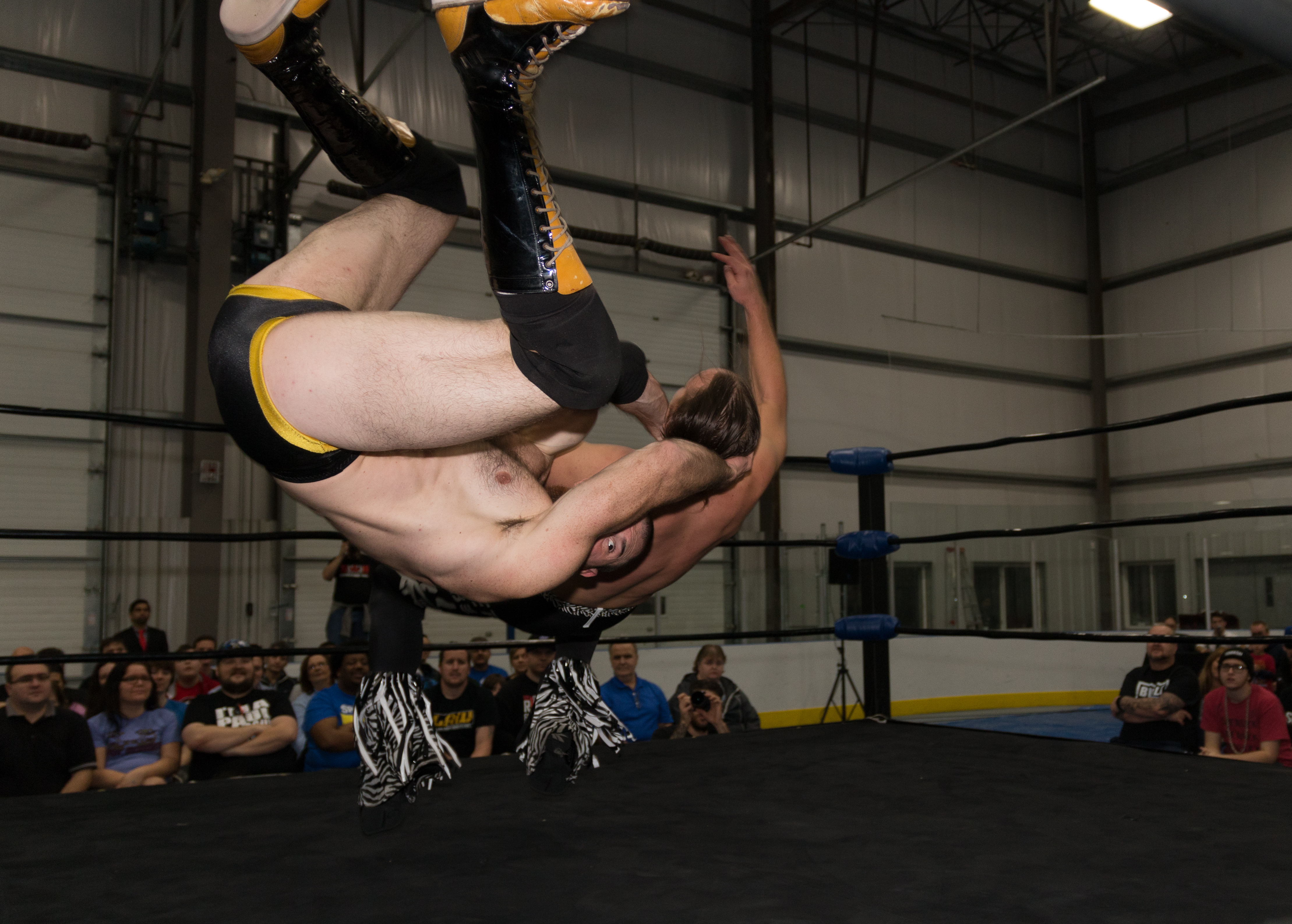 Independent wrestler Biff Busick executing a somersault neckbreaker against one-half of the Young Bucks at Smash Wrestling's Challenge Accepted show at the Canlan Sportsplex in Mississauga, ON